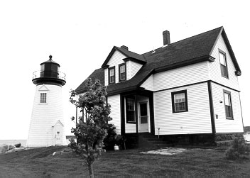 Prospect Harbor Point Lighthouse, Maine, USA 1891 version